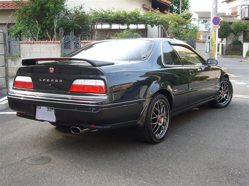 Honda Legend second-generation Alpha Touring Coupe